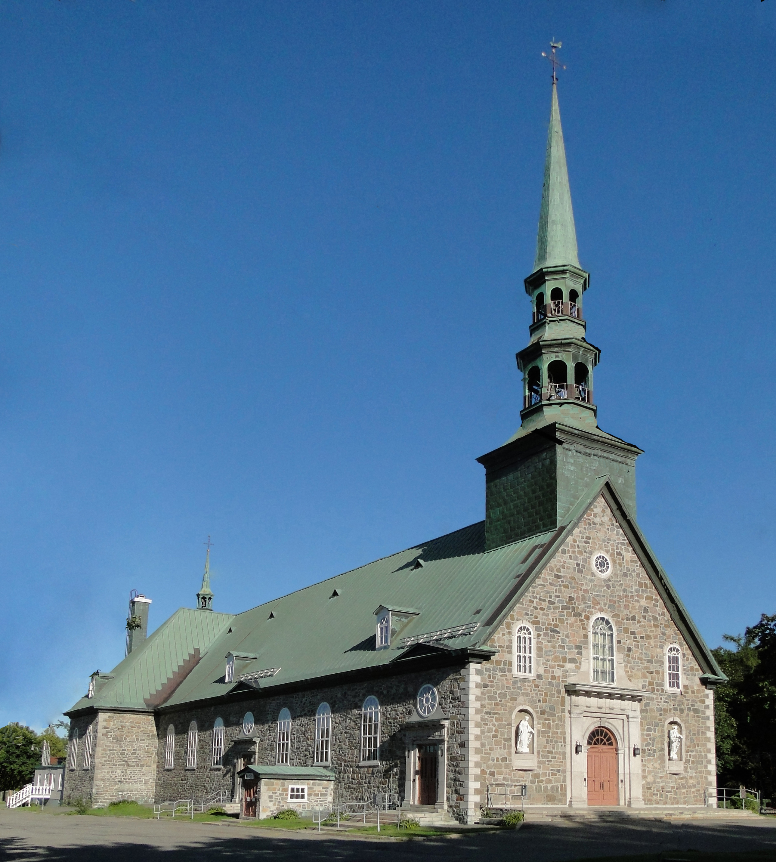 Saint-Joseph church (1832), Lévis, province of Quebec, Canada